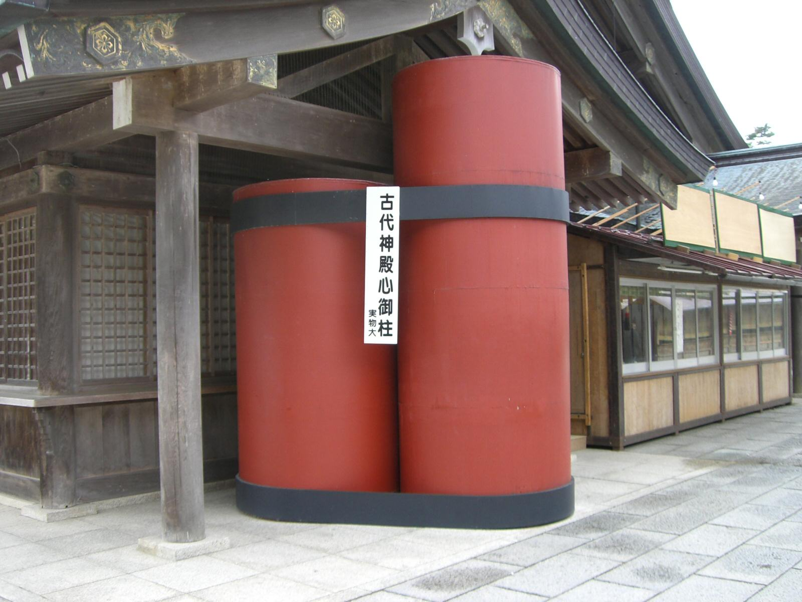 心御柱(Shin-no-mihashira):the replica of an ancient pillar found in the ground of the 出雲大社(Izumo Taisha)